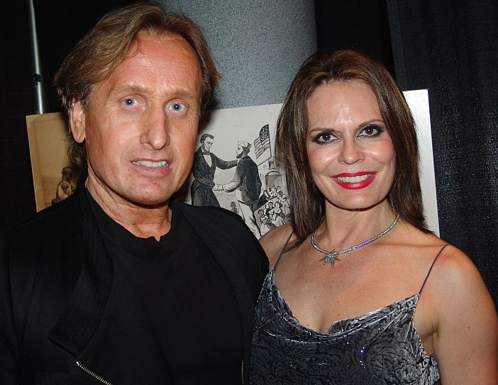 Fords 6-12-05 no photos on wiki